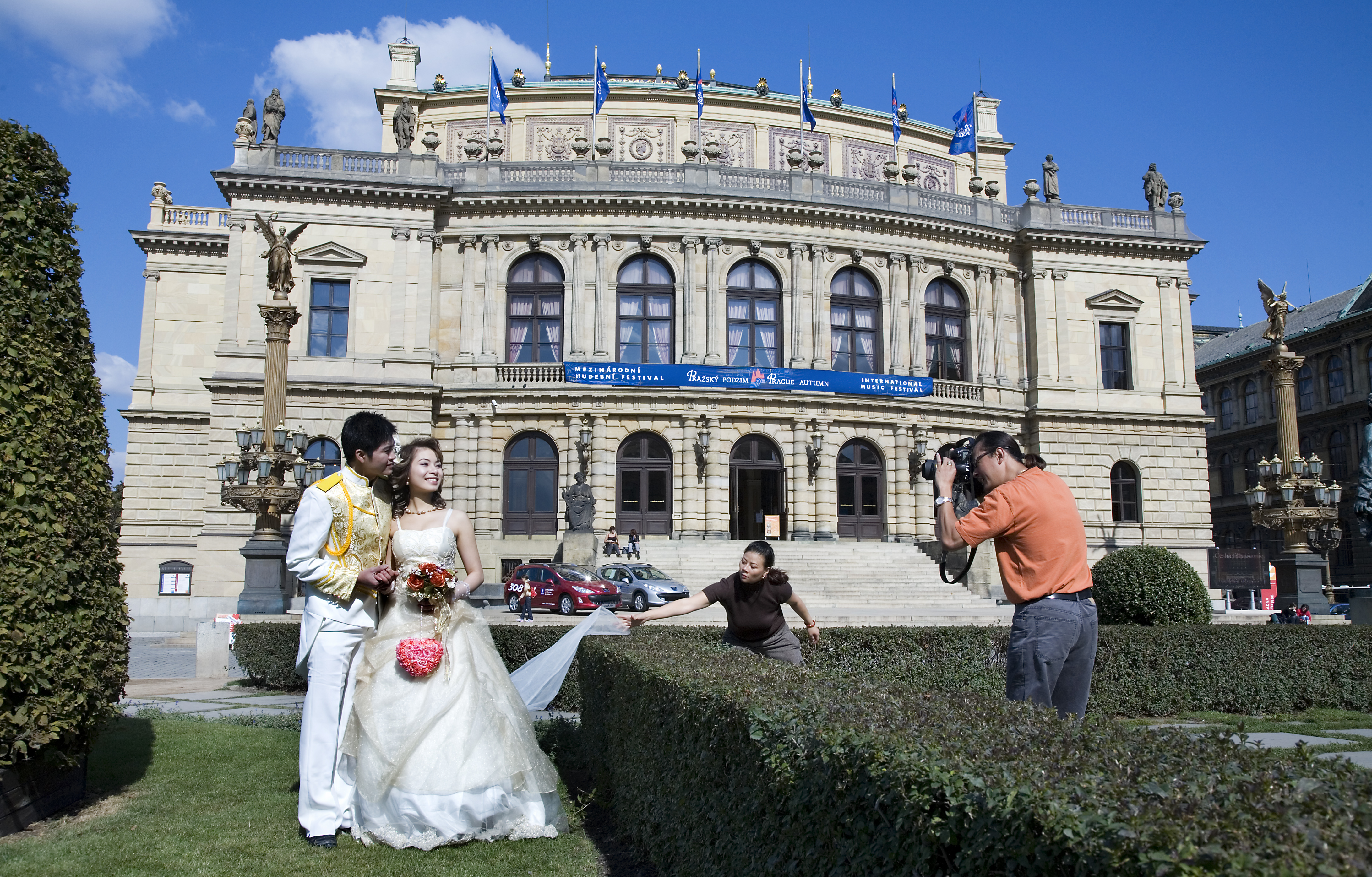 The Rudolfinum, Prague